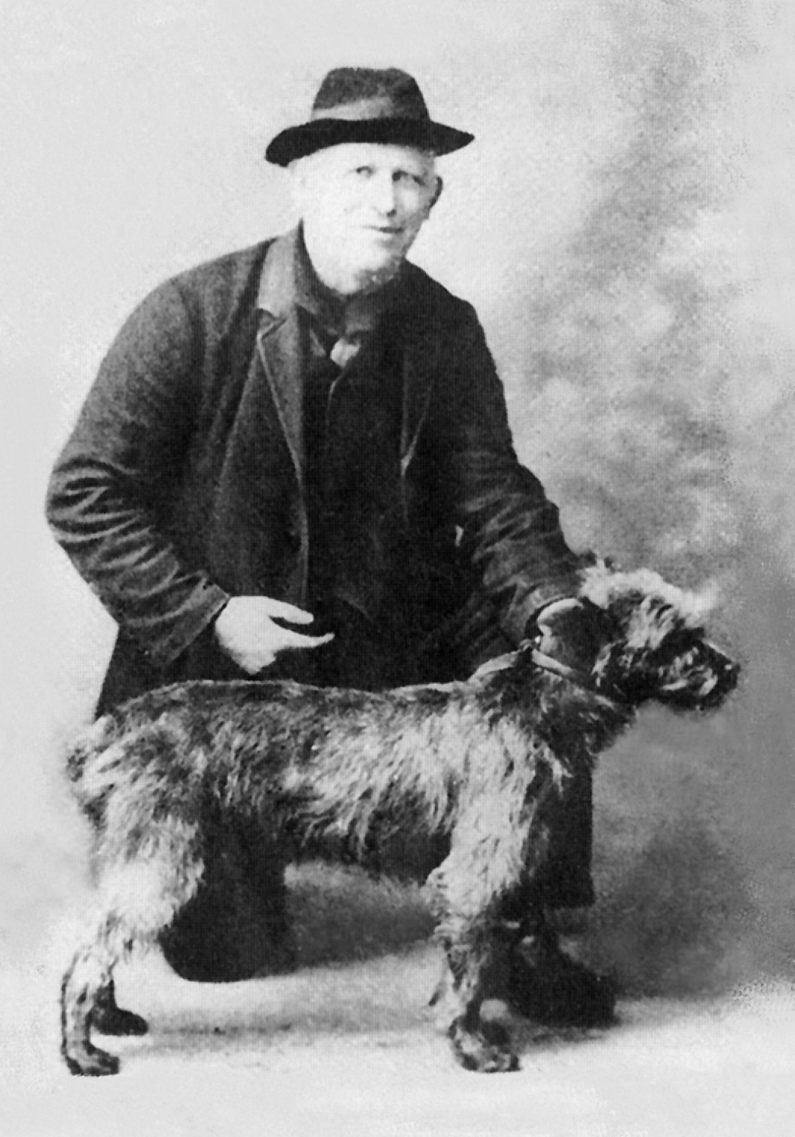 One of the first Kerry Blue Terriers. It's Mr. Philip Doyle with his dog "Terri" on the Killarney Show in the year 1916. "Terri" was one of the first shown Kerry Blue Terrier on a dog show.